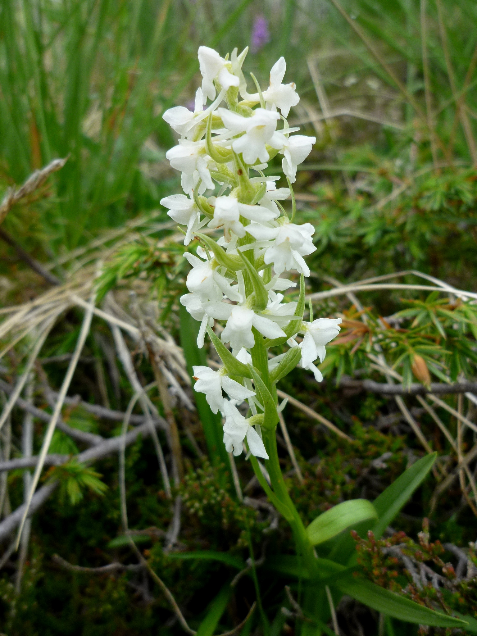 Platanthera chlorantha. In Cabdella (Pallars Jussà - Catalunya. To 2.220 m altitude